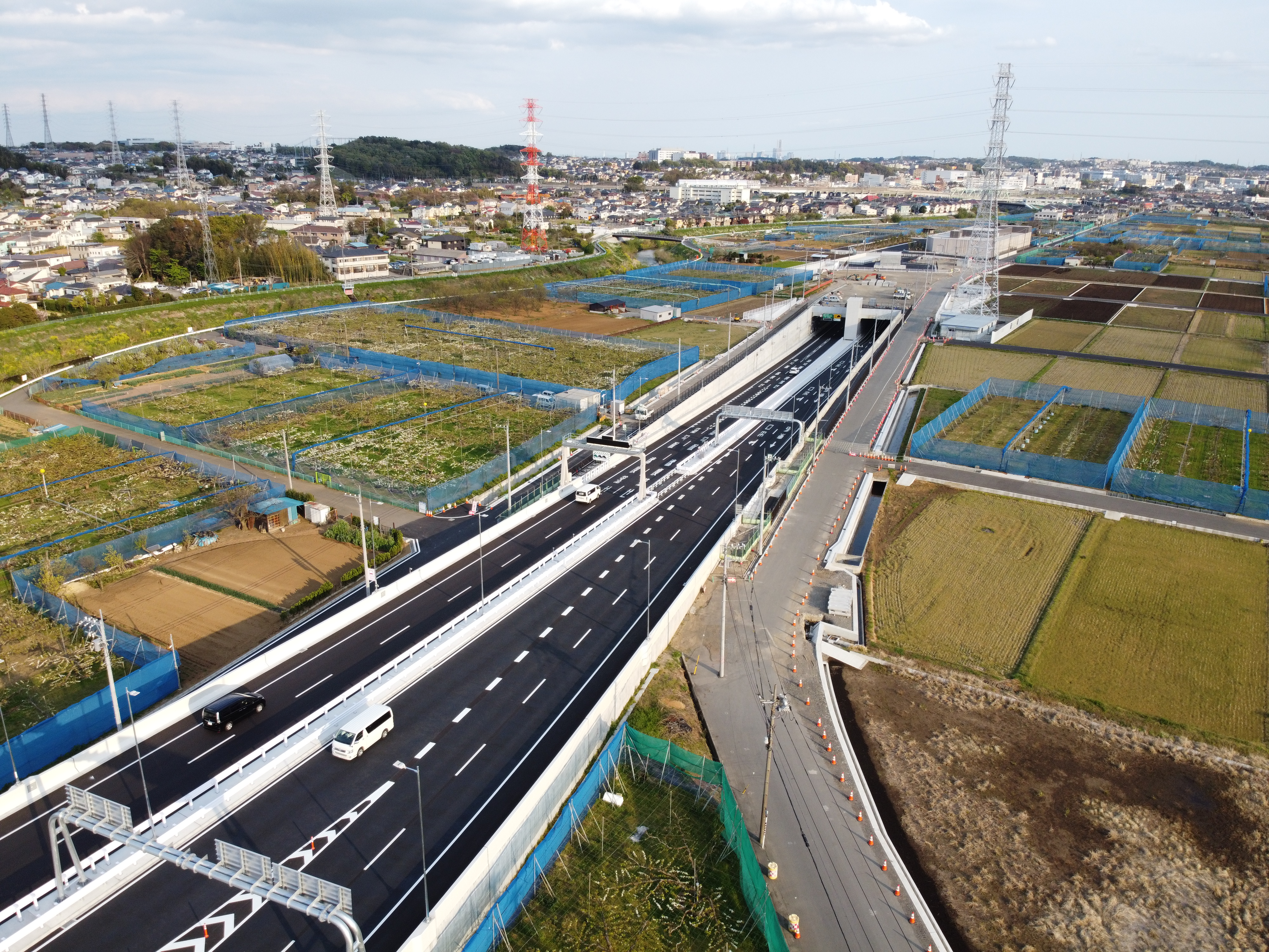 North entrance and exit of Yokohama Hokusei tunnel shot on Mavic Mini